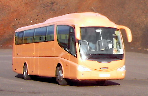 One of the newest Scania Irizar PB coach in front of a mountain in the Timanfaya national park on Lanzarote, Spain.